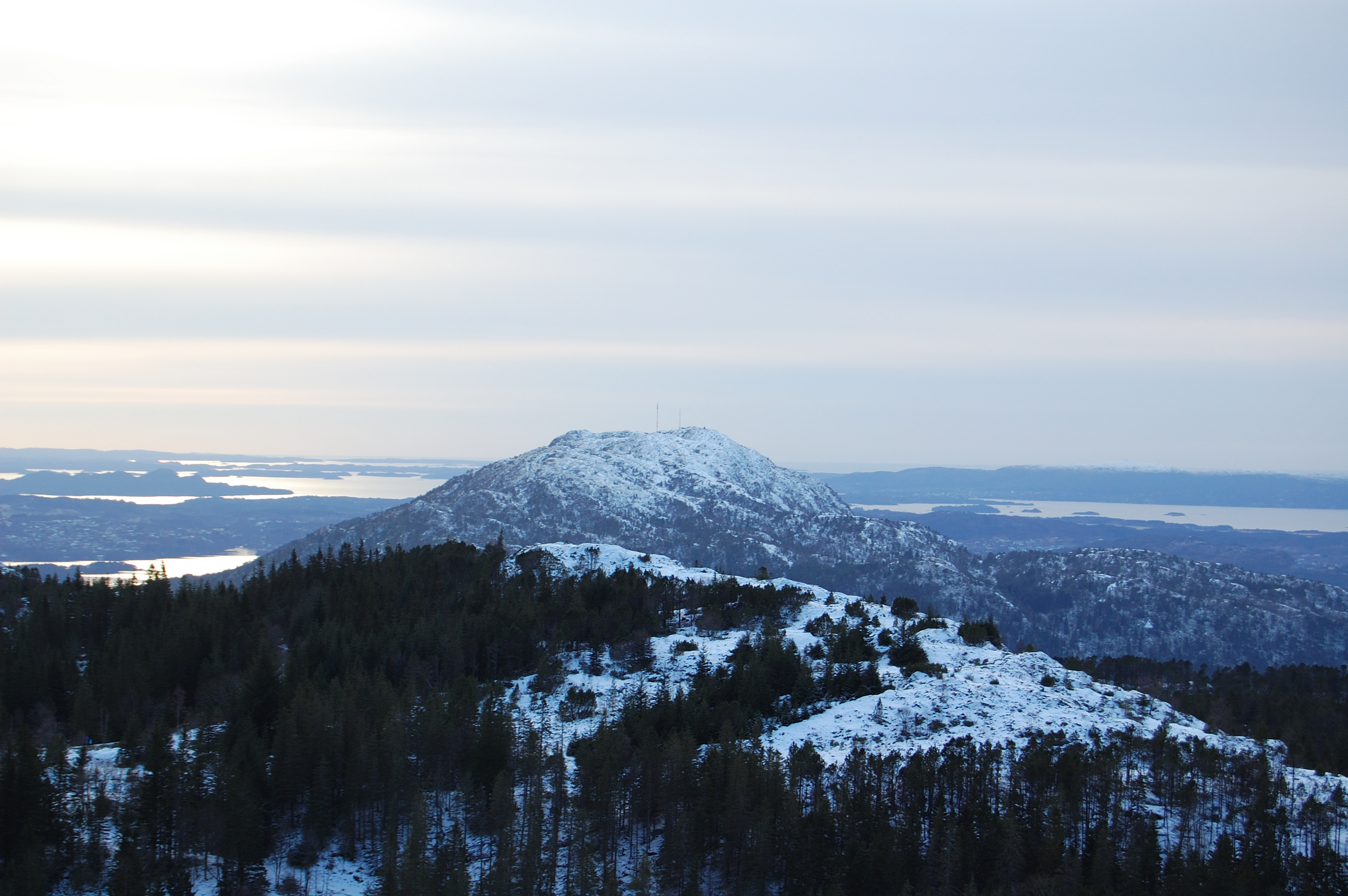 View of Løvstakken from the Rundemanen mountain.